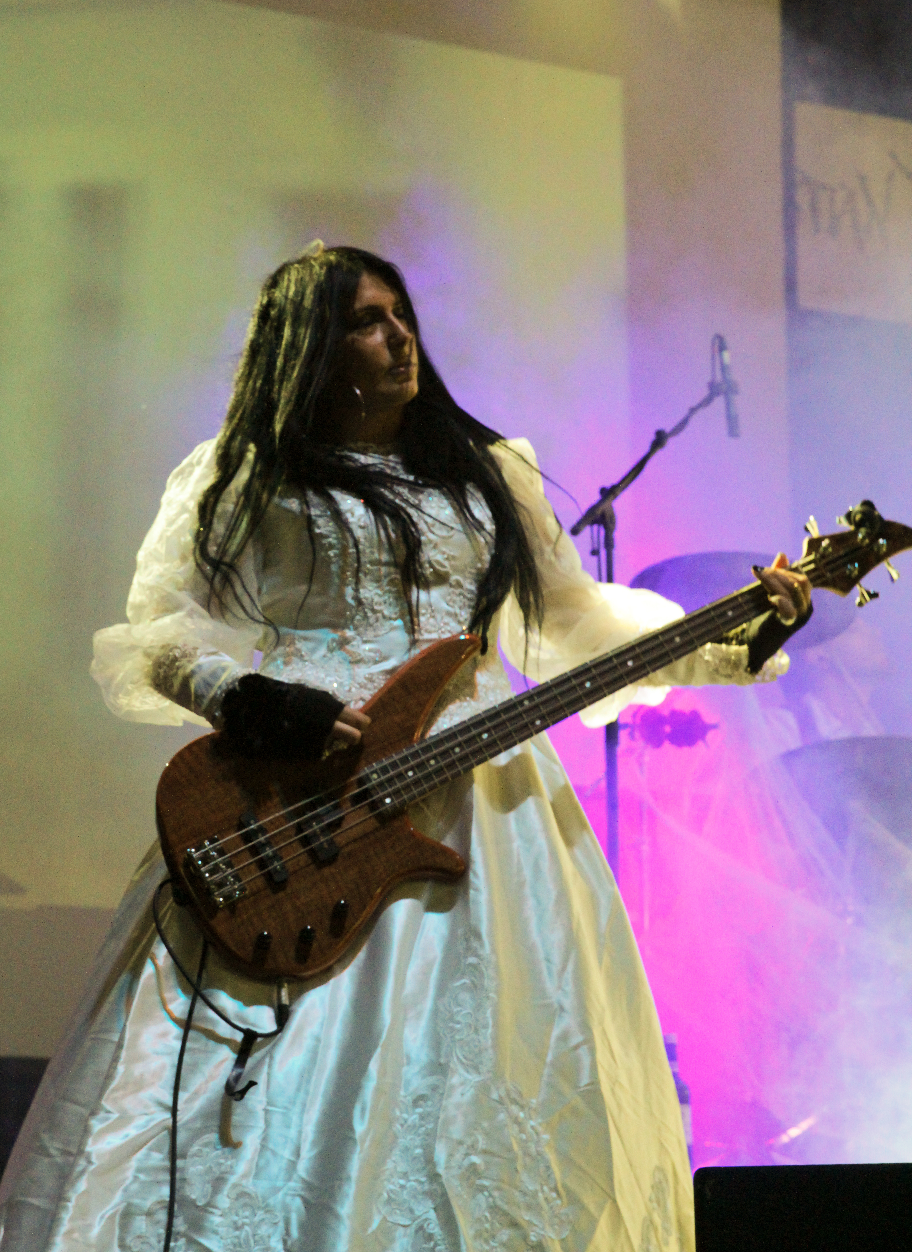 Christian Death at the Wave-Gotik-Treffen 2014.